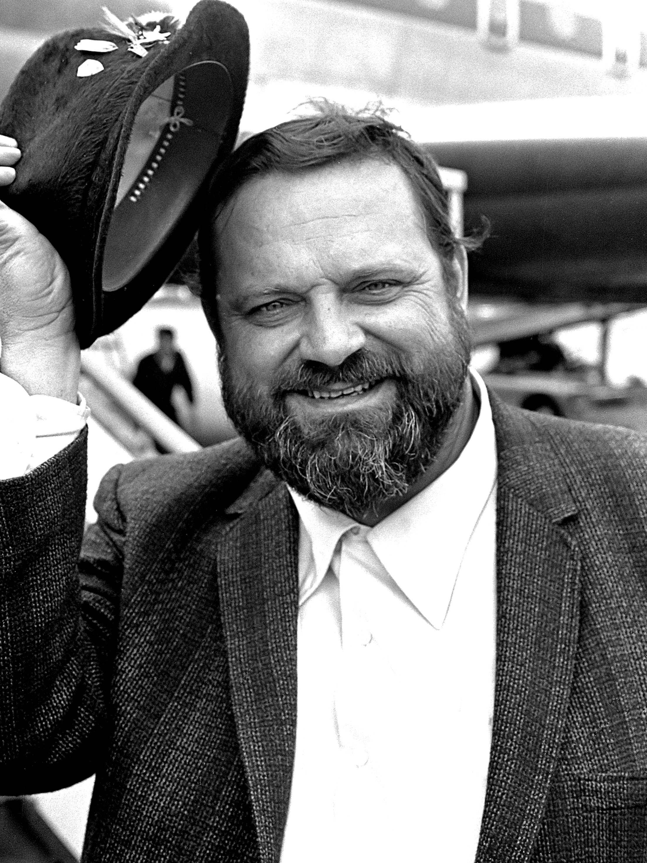 Photo of Al Hirt in 1966